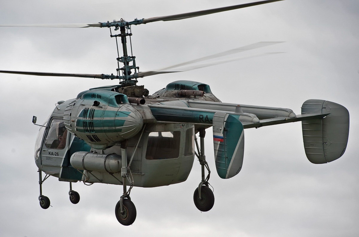 Airfield "Orlovka" Helicopter KA-26 RA-19349